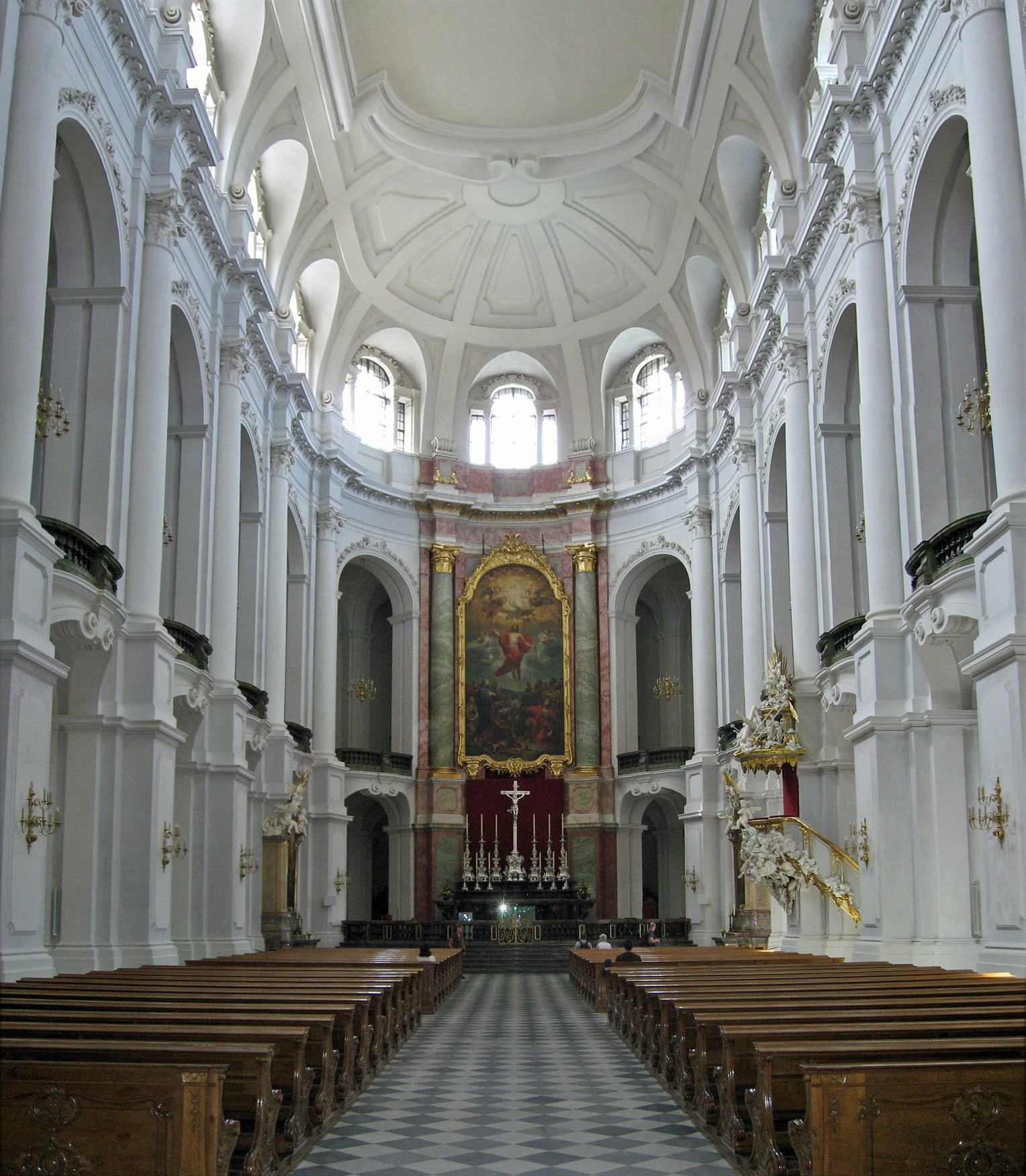 Interior of the Katholische Hofkirche Dresden.